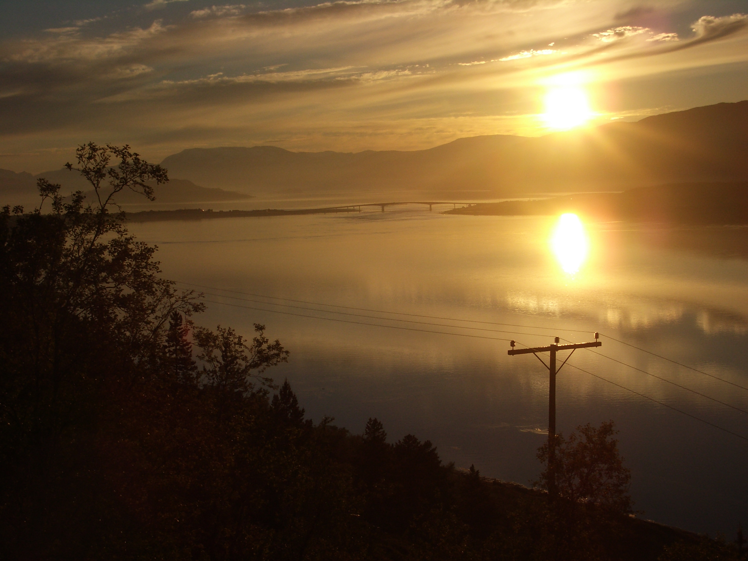 Late evening in Kvænangen, Norway. In the distance is Sørstraumen Bridge, crossing Kvænangen fjord.